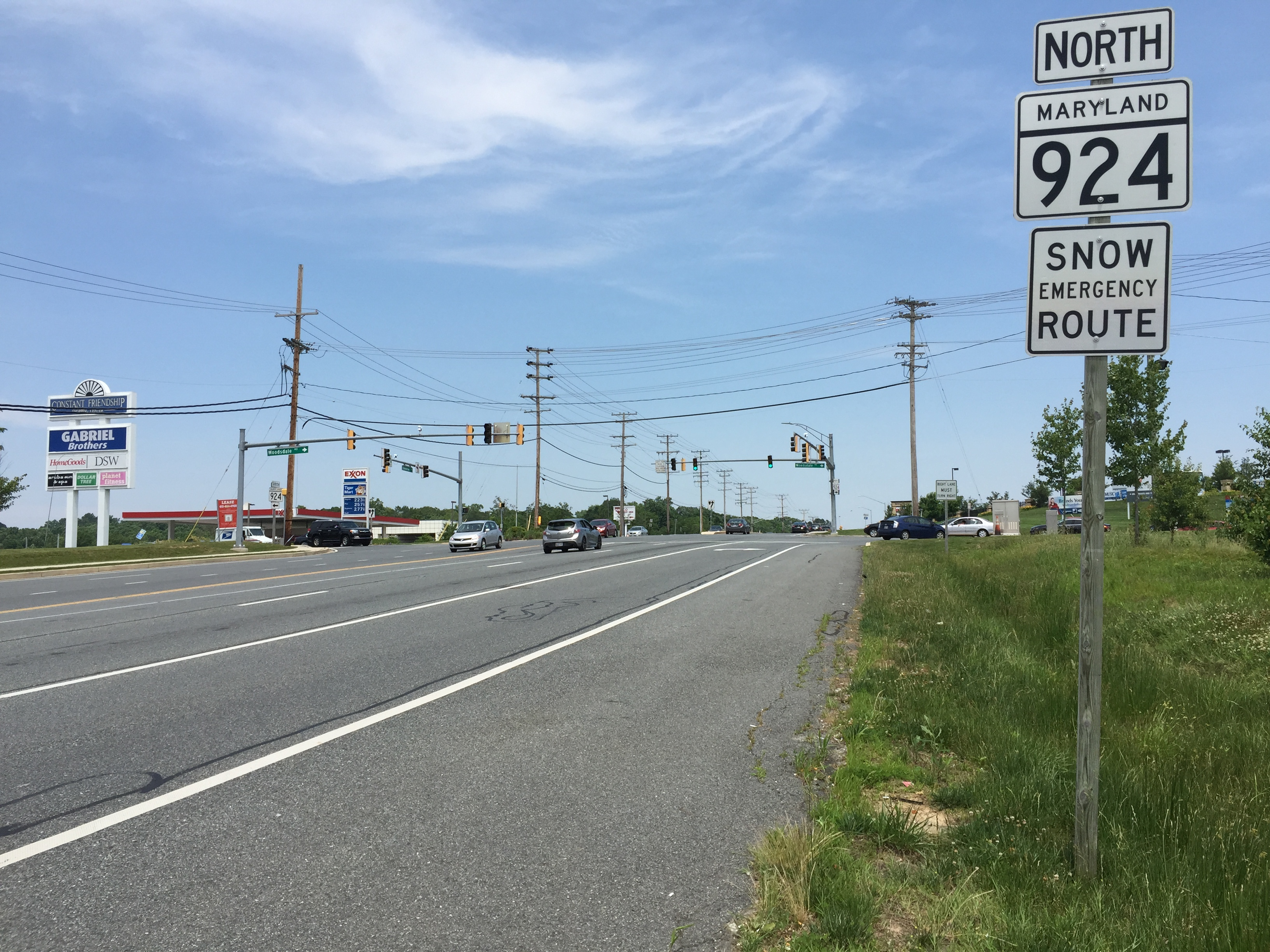 View north along Maryland State Route 924 (Emmorton Road) at Woodsdale Road in Bel Air South, Harford County, Maryland